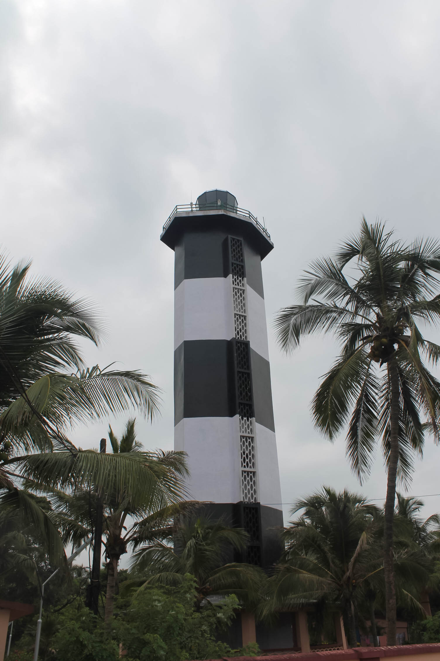 Kasaragod Lighthouse